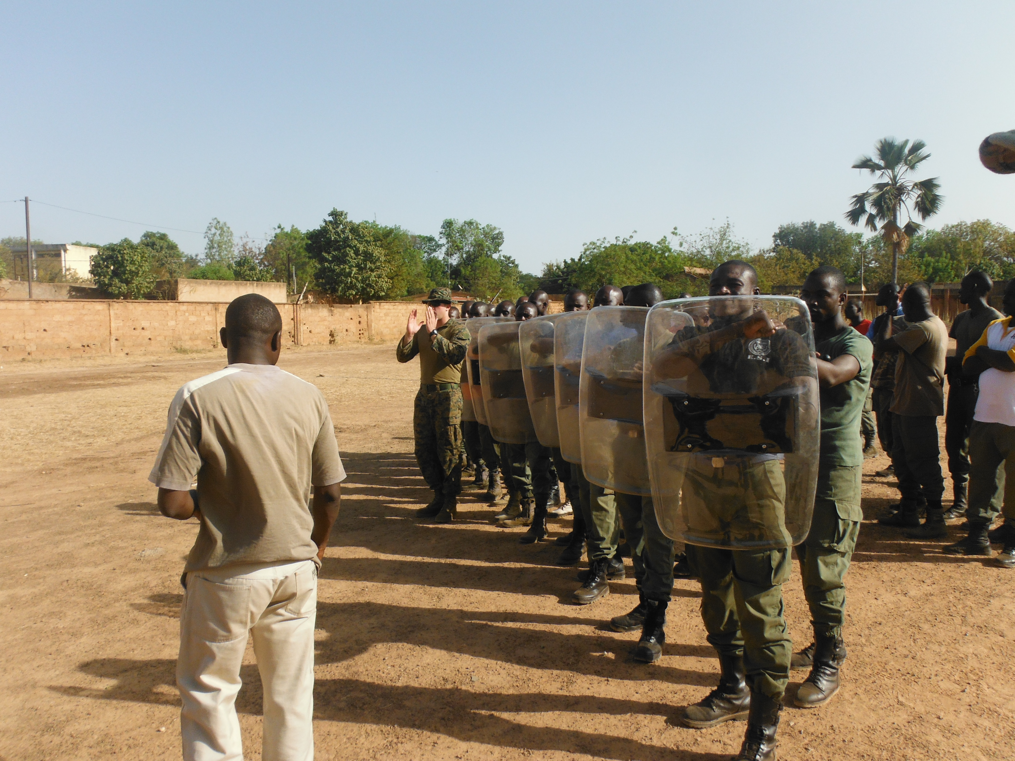 Burkinabé Gendarmerie practice movement in crowd-control formations during a training engagement with Marines with Special-Purpose Marine Air-Ground Task Force Africa 13 in Ouagadougou, Burkina Faso, Nov. 14, 2013. The Marines with the task force participated in a non-lethal weapons tactics and training engagement with members of the national police force of Burkina Faso.